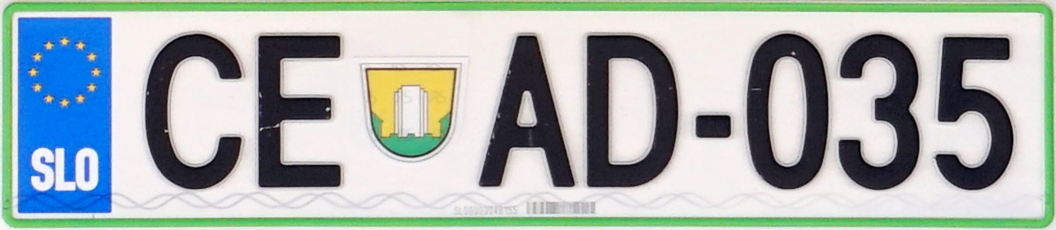 Slovenian license plate with the sticker of Velenje administrative unit